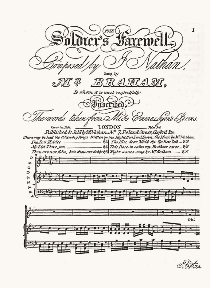 The Soldier's Farewell, Composed by I. Nathan, sung by Mr. Braham … The words taken from Miss Emma Lyon's Poems